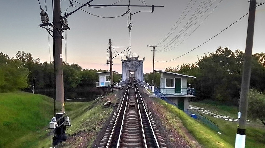 Railroad bridge Brest - Terespol over the Western Bug